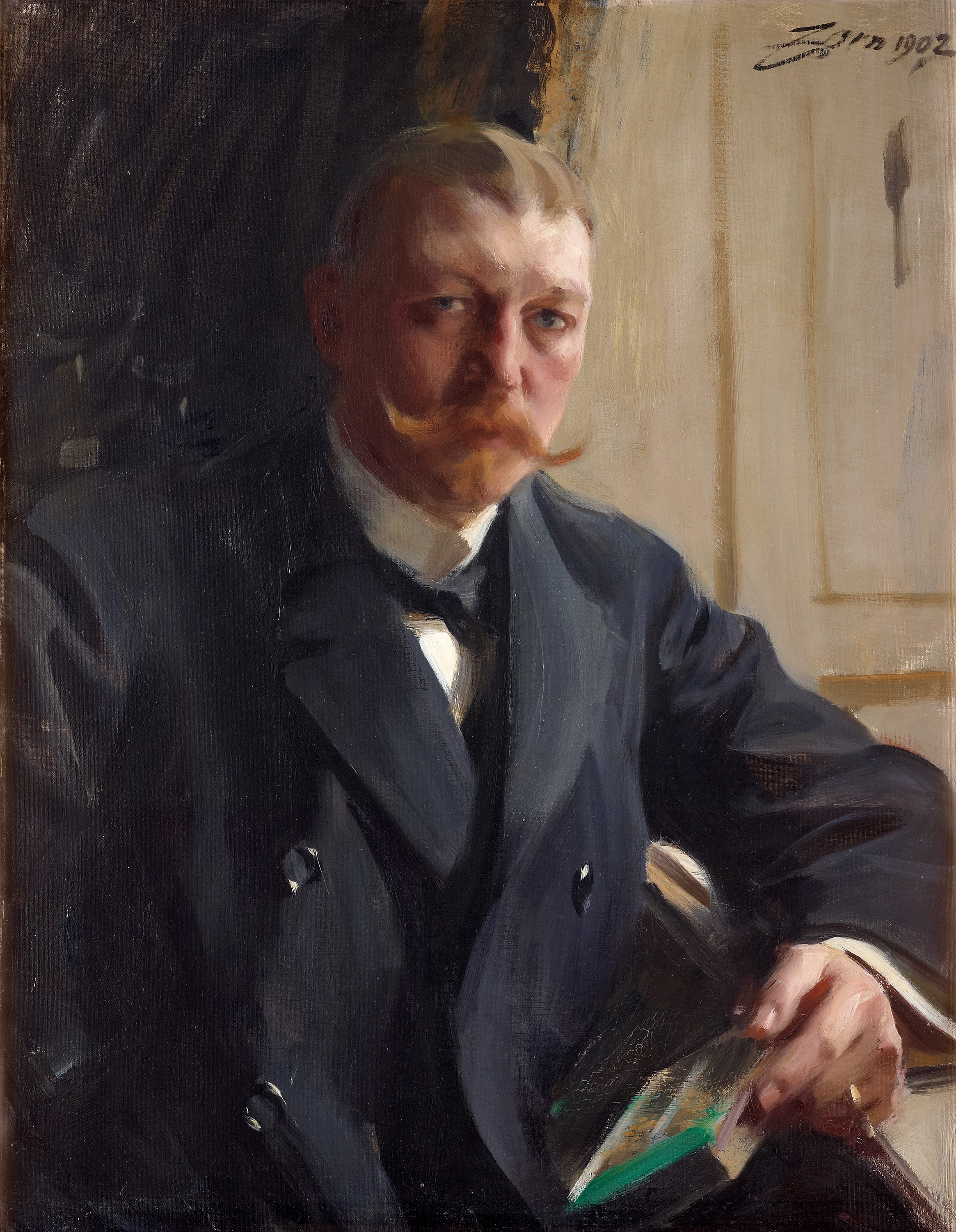 Portrait of Zorn's friend the German-born brewer and industrialists Franz Heiss